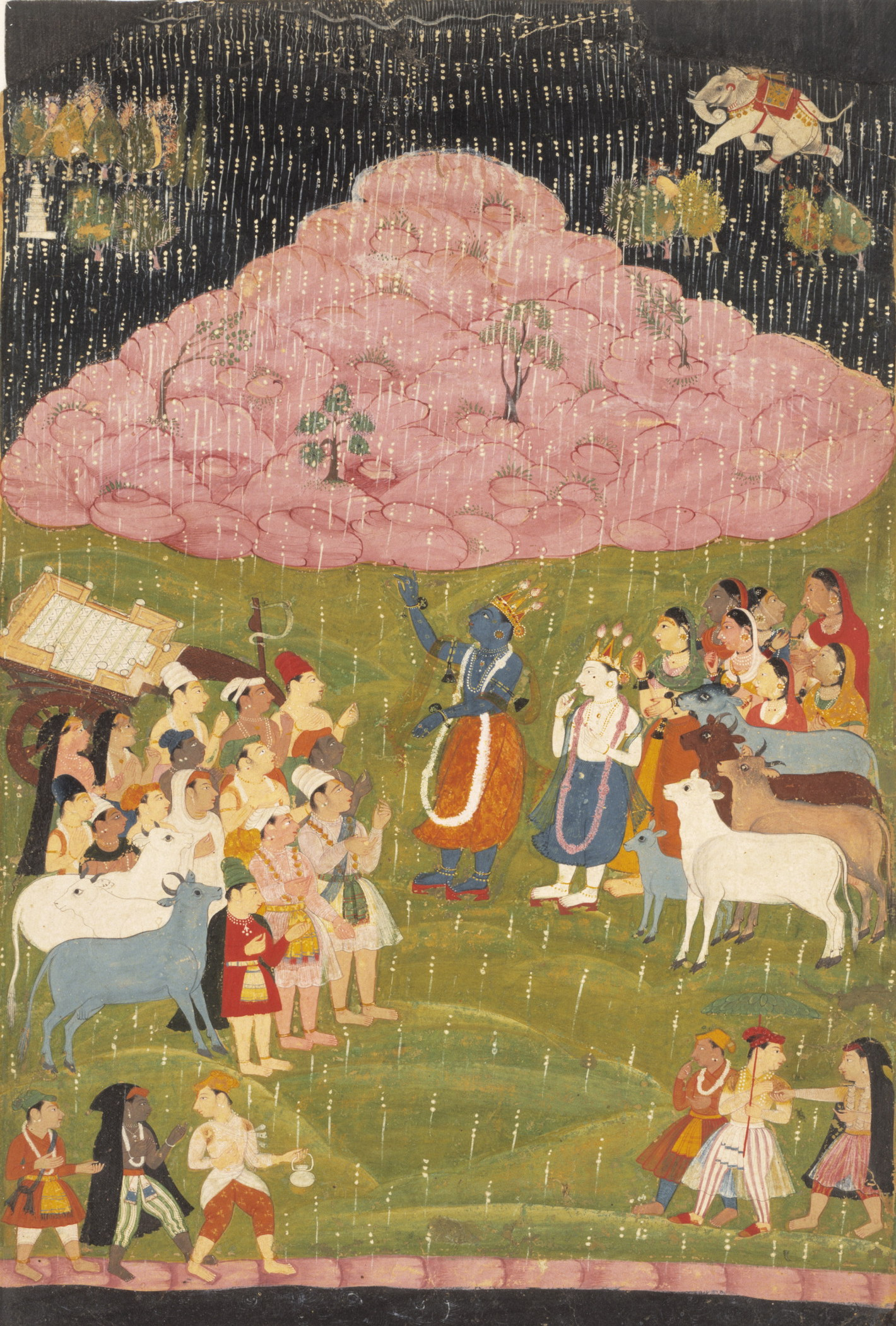 Krishna raising Mount Govardhan, an illustration from the Bhagavata Purana manuscript,ca 1640. (Cropped version from an image with partially fragmented borders) Opaque watercolour on paper. Bundi, Rajasthan. India.